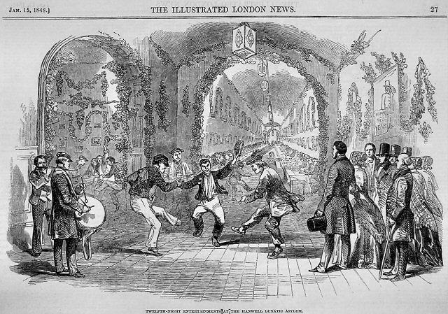 A full page illustration and short article was published in The Illustrated London News on 15 January 1848 about how Twelfth Night was celebrated at the Wikipedia:Hanwell Asylum. Text reads: "Seven years have elapsed since the experiment of non-restraint has been fully tried in the Hanwell Asylum; and Dr Conolly, in the spirit of a Christian philosopher, thanks God, with deep and unfeigned humility, that nothing has occurred during that period to throw discredit on the great principles for which he has so nobly battled".